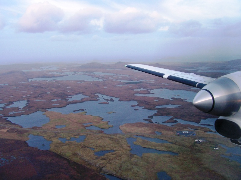 Hebrides